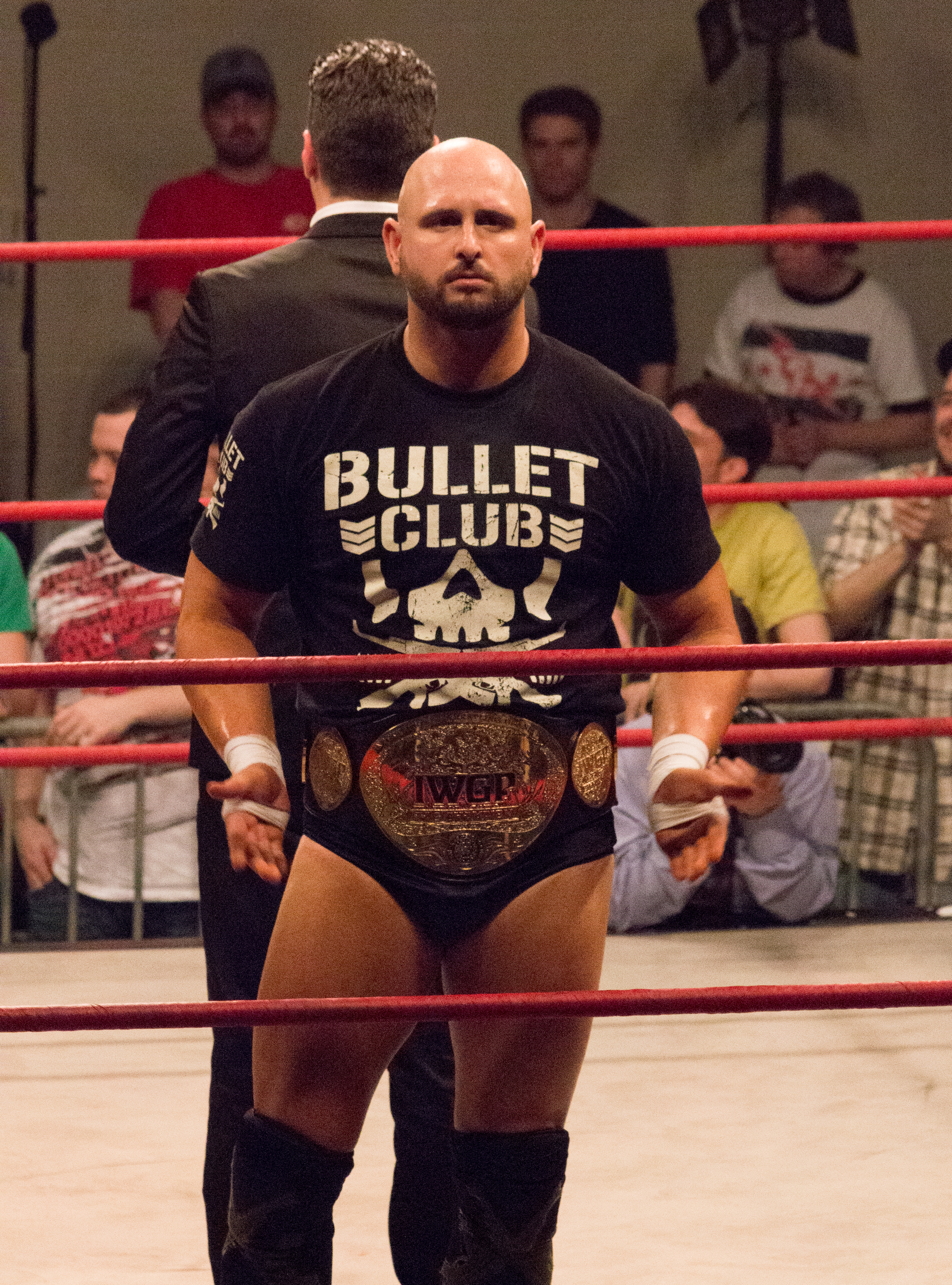 Karl Anderson making his ring entrance at Border City Wrestling's East Meets West show at St. Clair College in Windsor. The belt around his waist is the IWGP Tag Team Championship